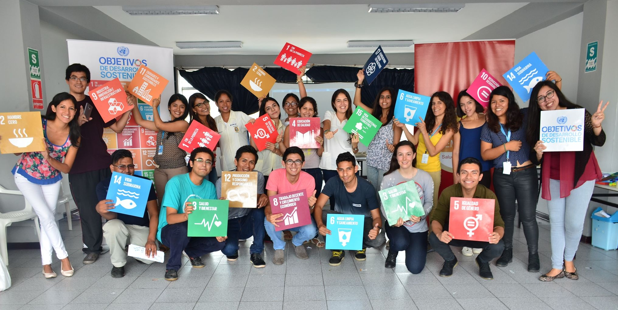 Sustainable Development Goals (Lima, Peru) 2